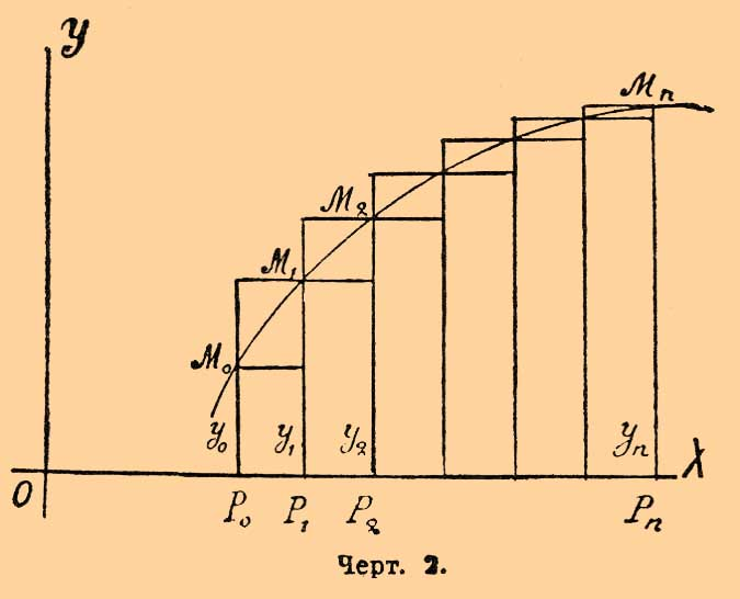 Illustration from Brockhaus and Efron Encyclopedic Dictionary (1890—1907)